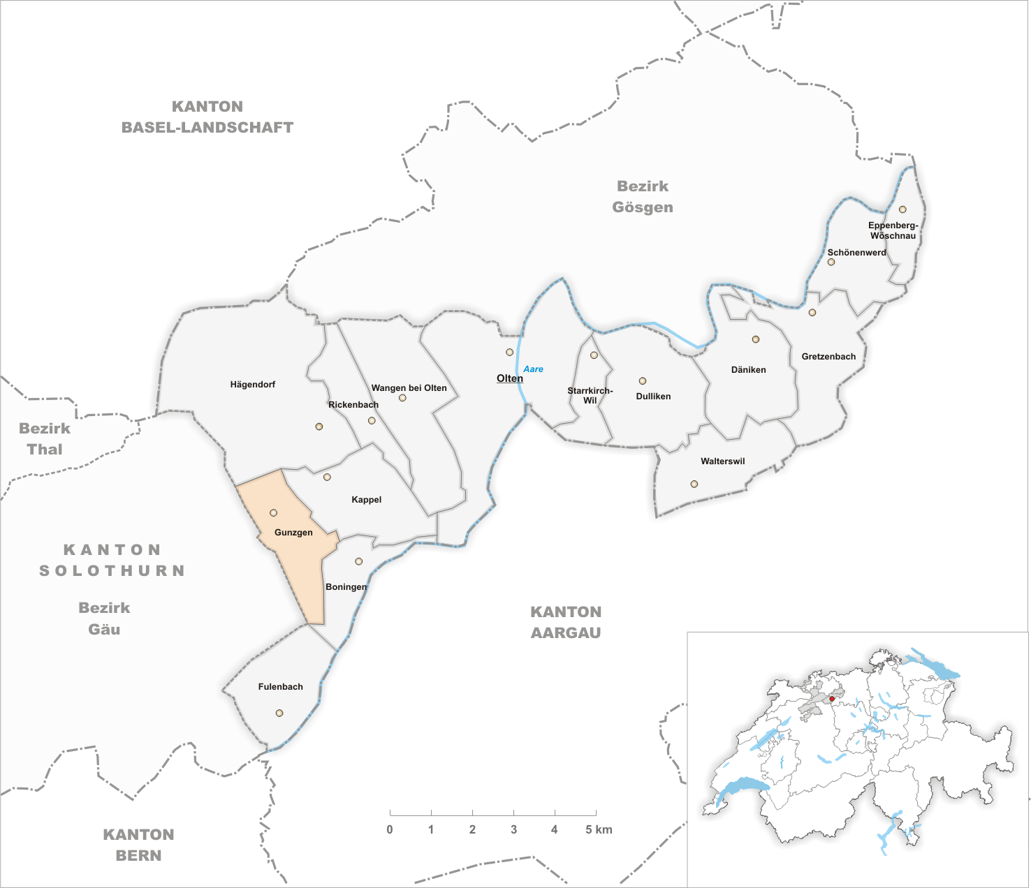 Municipality Gunzgen